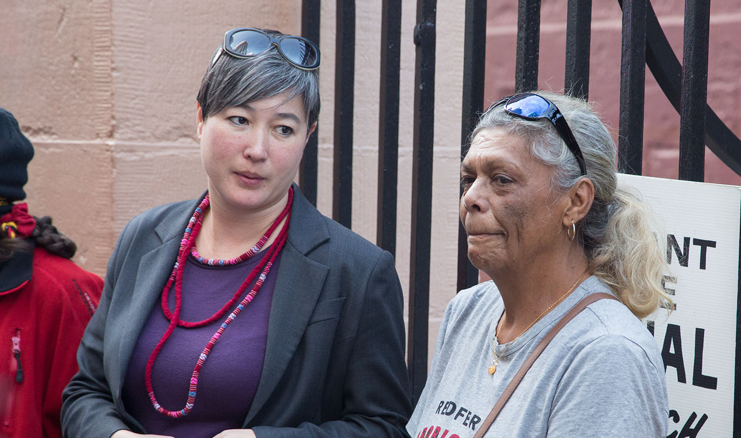 Politician Jenny Leong standing with Aboriginal activist Jenny Munro at a demonstration outside Parliament House New South Wales, calling for low cost housing for Aboriginal people.